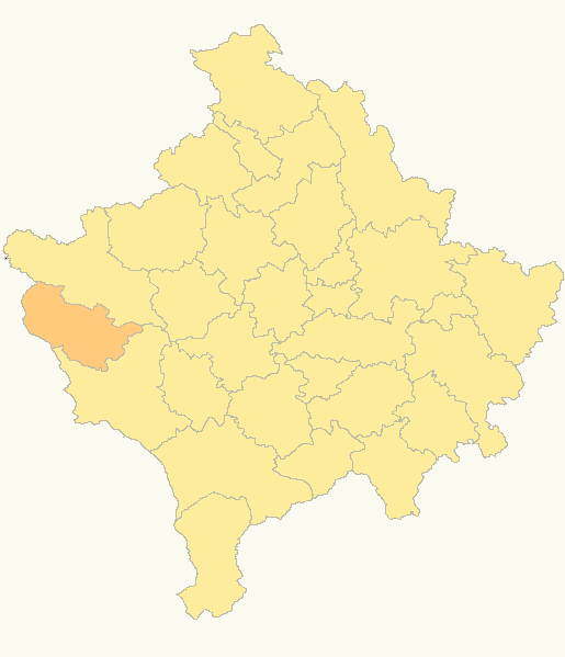 Decan